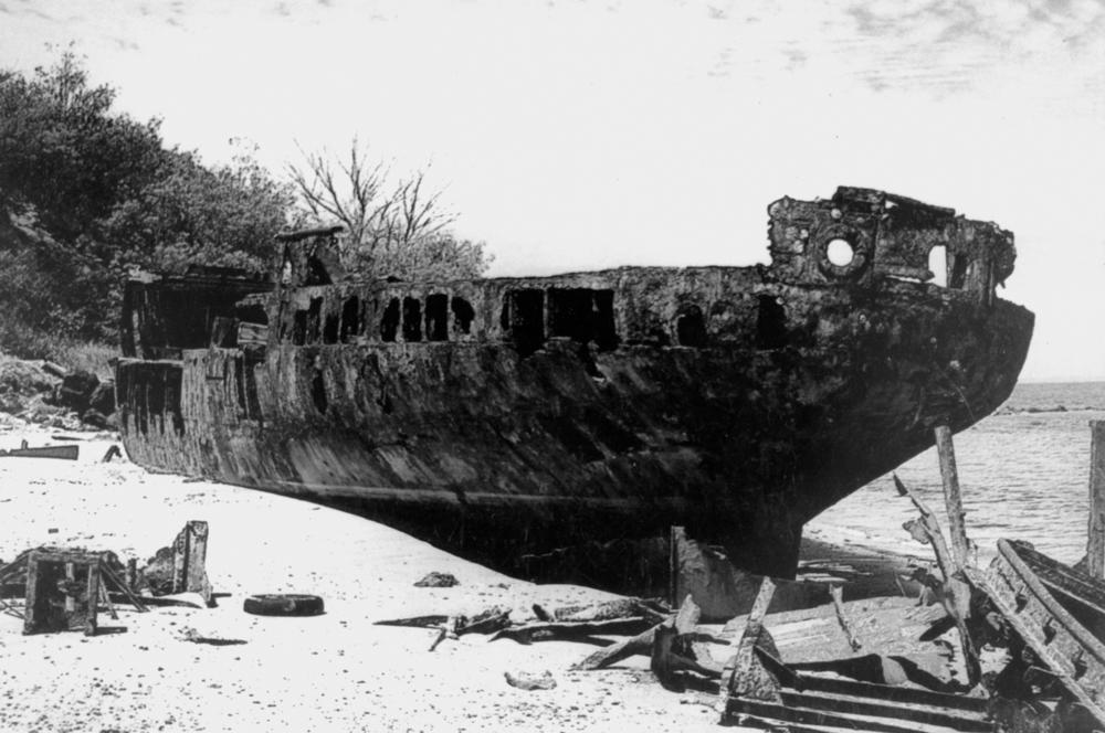 Gayundah (ship) HMQS 'Gayundah' of Queensland's early Navy, launched at Newcastle-on-Tyne, 1884, rests at Woody Point, Queensland after 76 years afloat. On 3 June 1958, the 'Gayundah', once the flagship of the Queensland Navy was beached at Picnic Point and filled with ballast to form a breakwater to prevent erosion. Gayundah Esplanade was named after this vessel, by Redcliffe Town Council in 1962. (Information supplied with photograph).